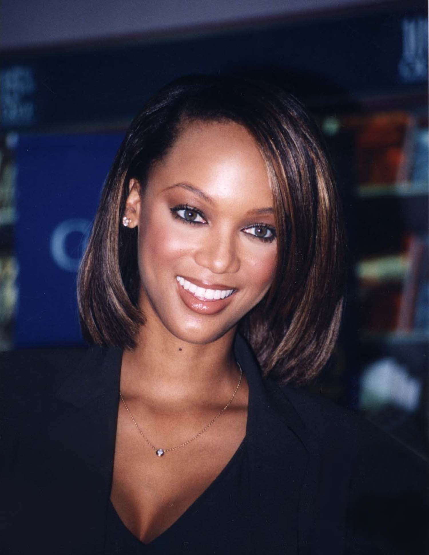 Wash D.C book signing April 1, 1998